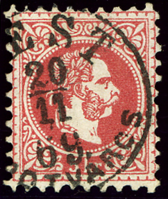 5 kreuzer k.u k. cancelled at Pest - Lipotvaros (Leopoldstadt) in 1869 (Müller type F139 )